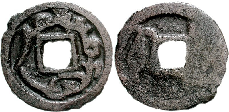 Coin of Tarkhun, a king of Samarkand.